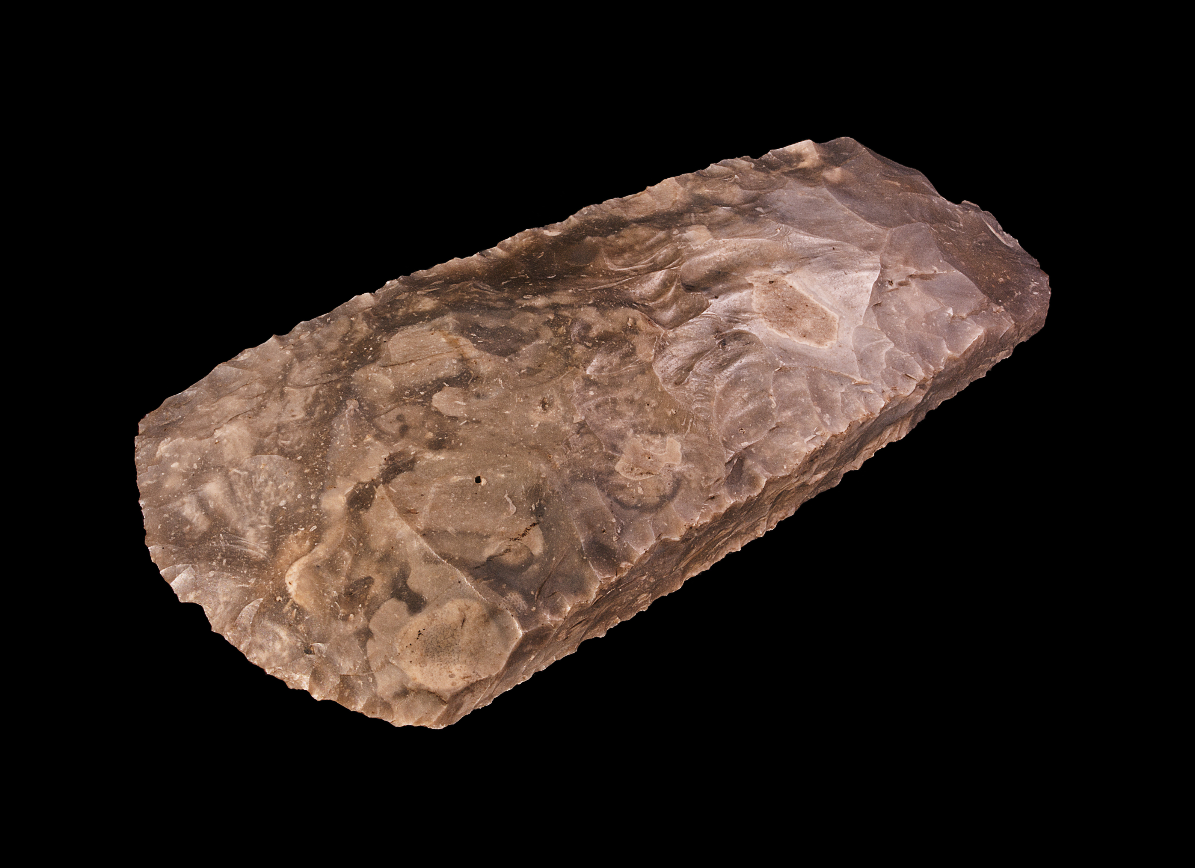 Preform for a polished ax